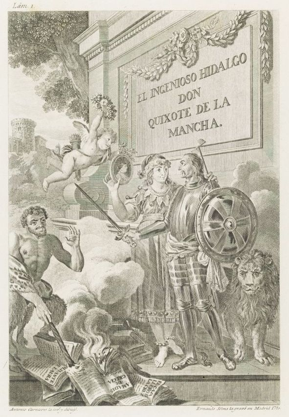 Manuel Salvador Carmona - Portrait of Miguel de Cervantes Saavedra in The Ingenious Gentleman Don Quixote de La Mancha